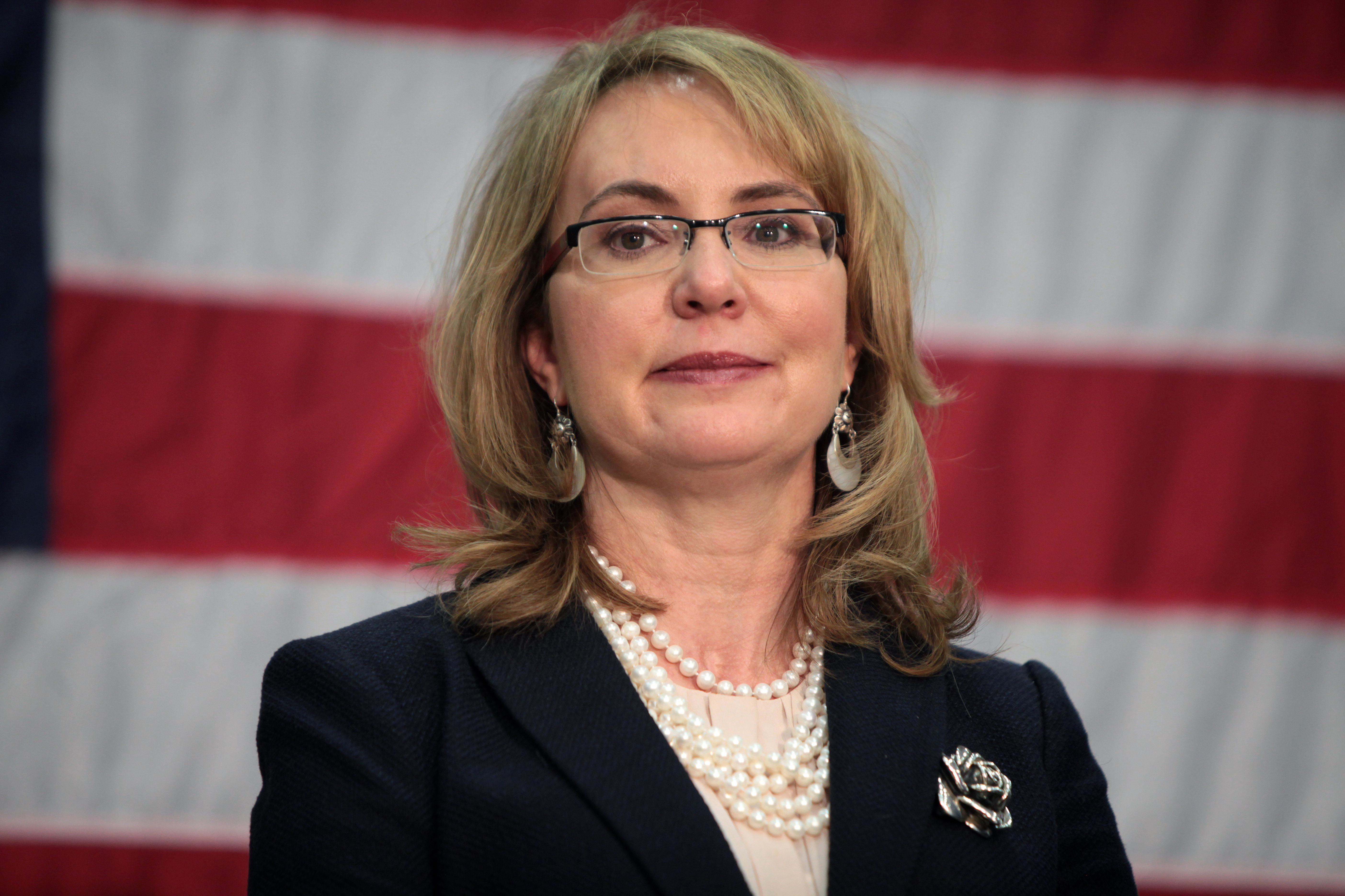 Gabrielle Giffords speaking at an event in Phoenix, Arizona.